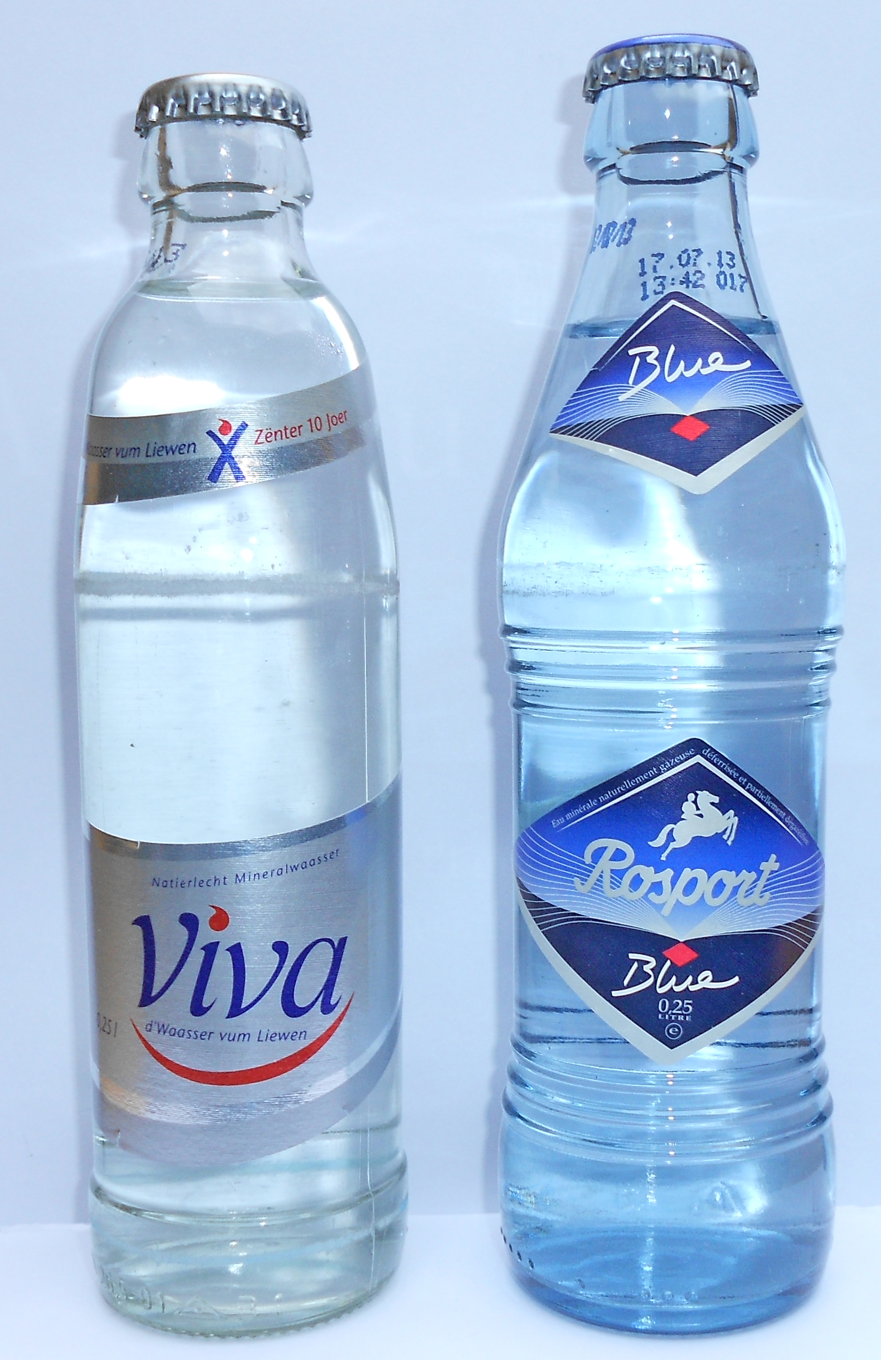 0,25 liter glass bottles of the Luxembourgish water brand Sources Rosport: on the left, the non sparkling Viva, on the right, sparkling water Rosport Blue (sparkling water)